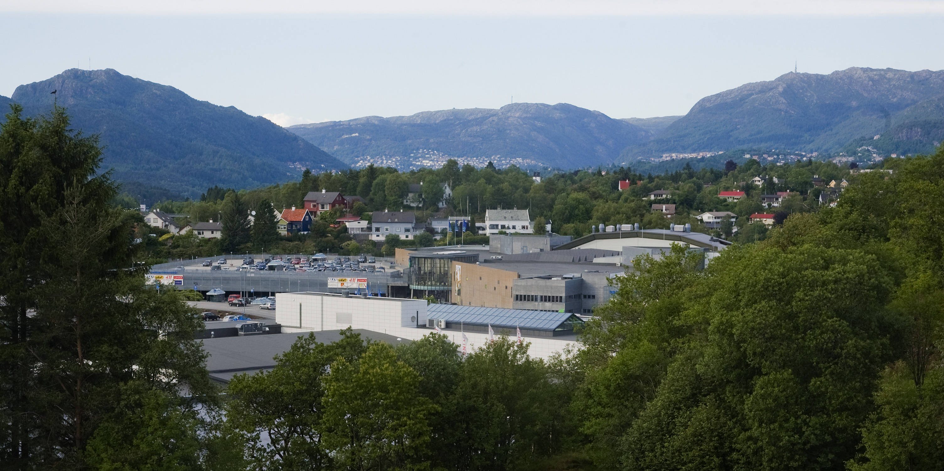 Lagunen Storsenter, a shopping centre in Bergen, Norway.